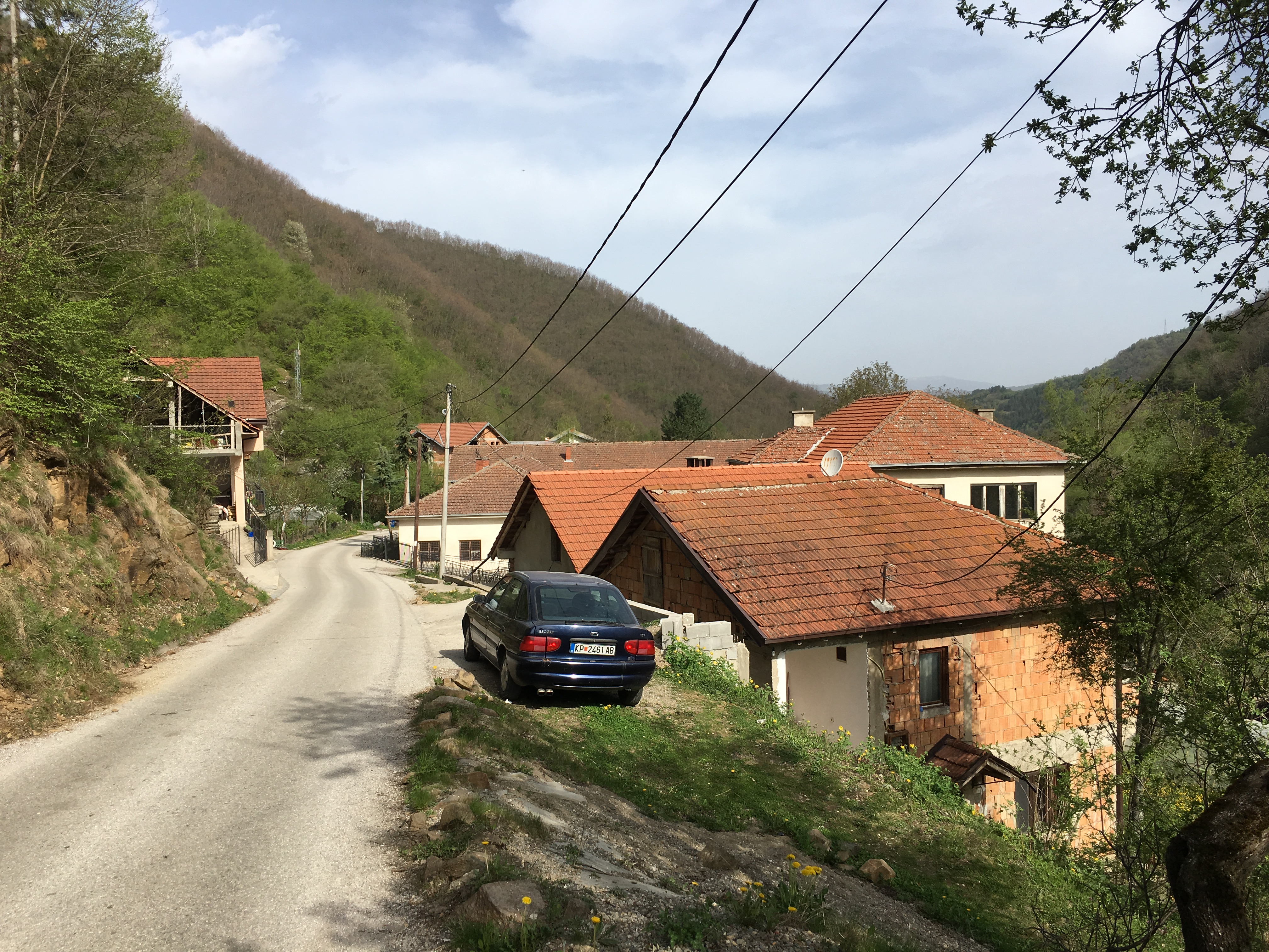 A view of the village of Duračka Reka